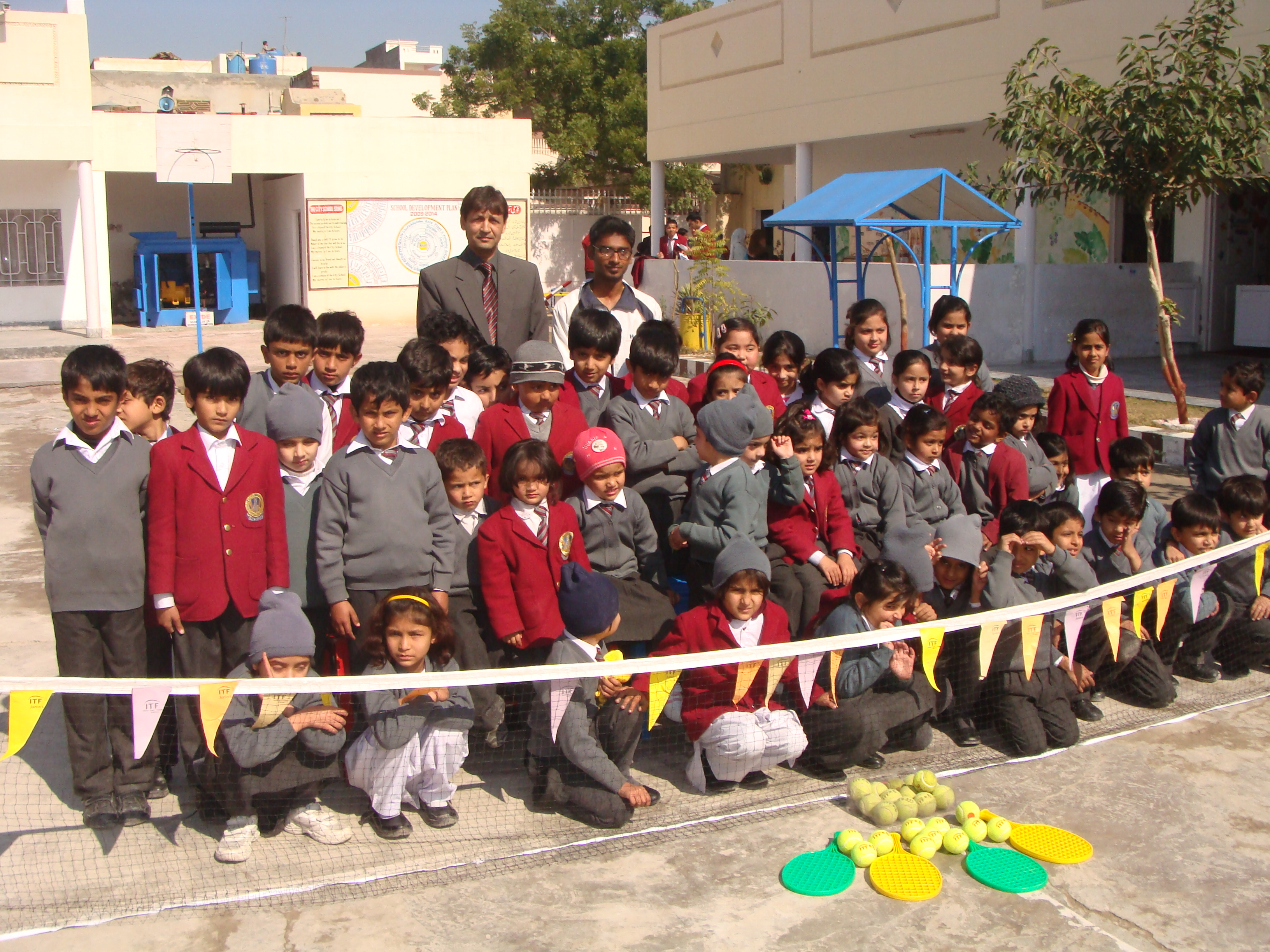 ITF Tennis Camp in burewala 2013 held in The City School Burewala with the colaboration of Punjab Tennis association and International Tennis Federation Group Photo with Chairman Board of Director Xeeshan Sports Academy (Reg) Burewala